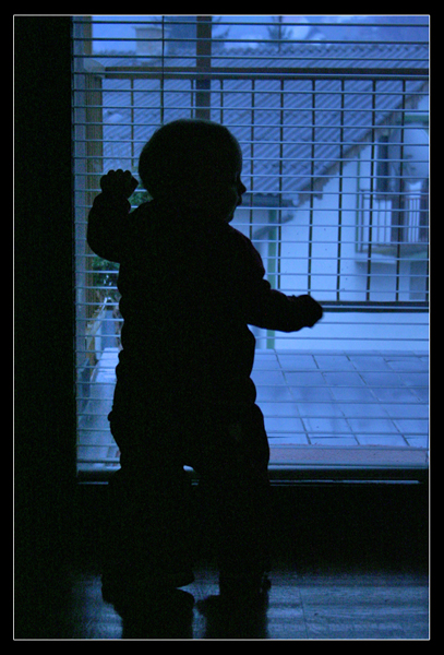 Silhouette of a child